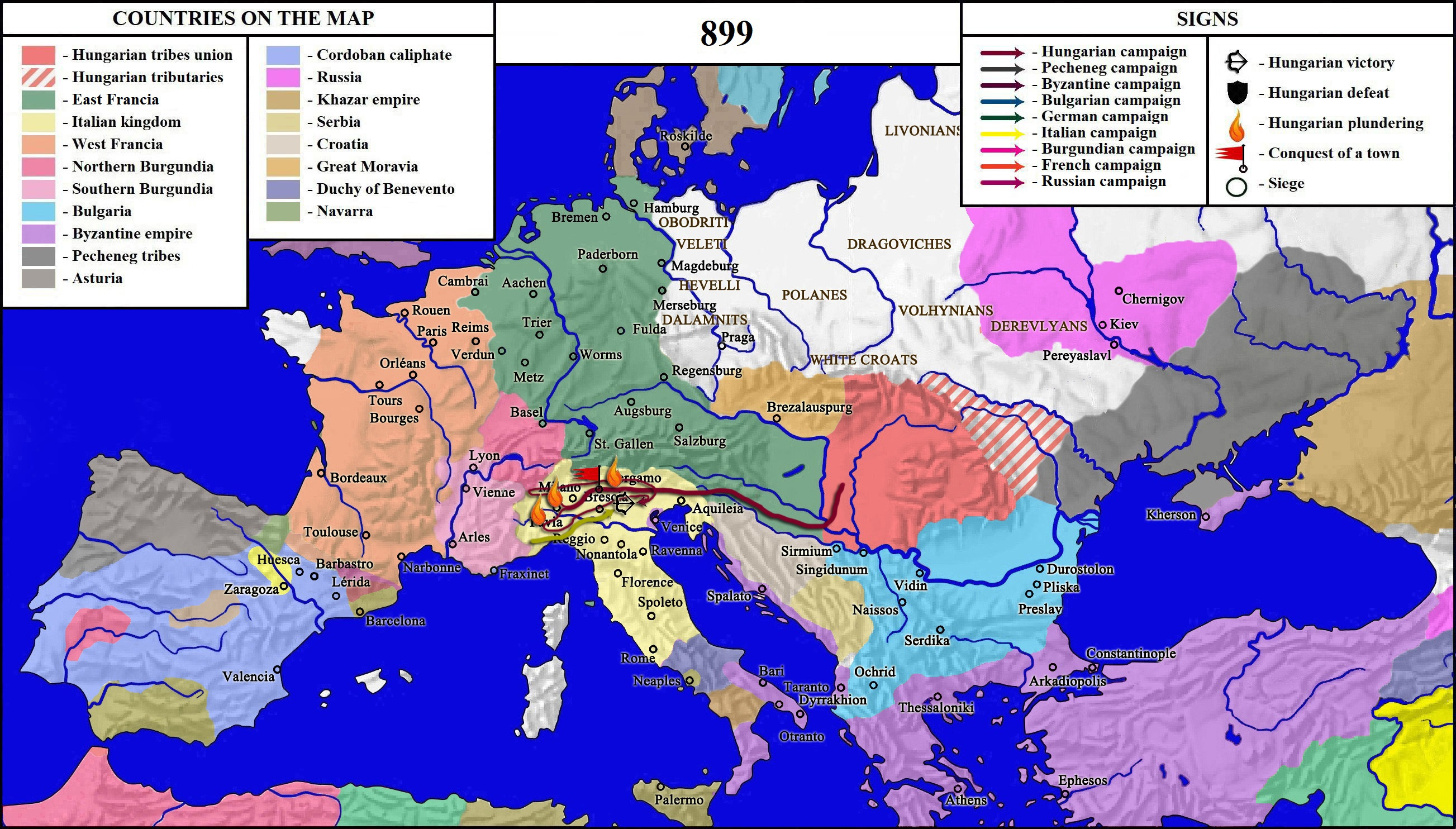 The Hungarian campaign in Italy until the Battle of Brenta